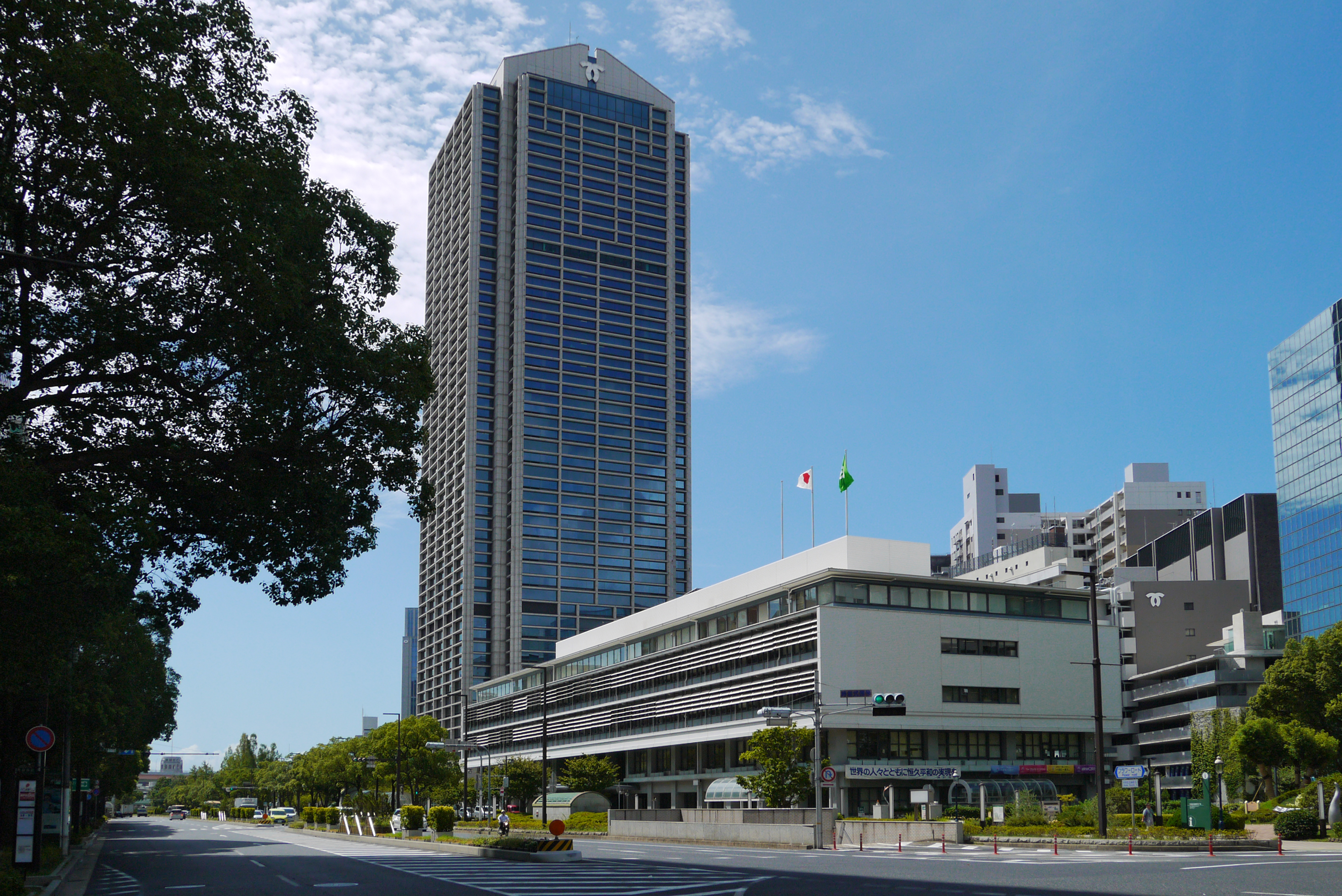 Kobe City Hall, Kobe, Hyogo prefecture, Japan Panasonic Lumix DMC-GF5